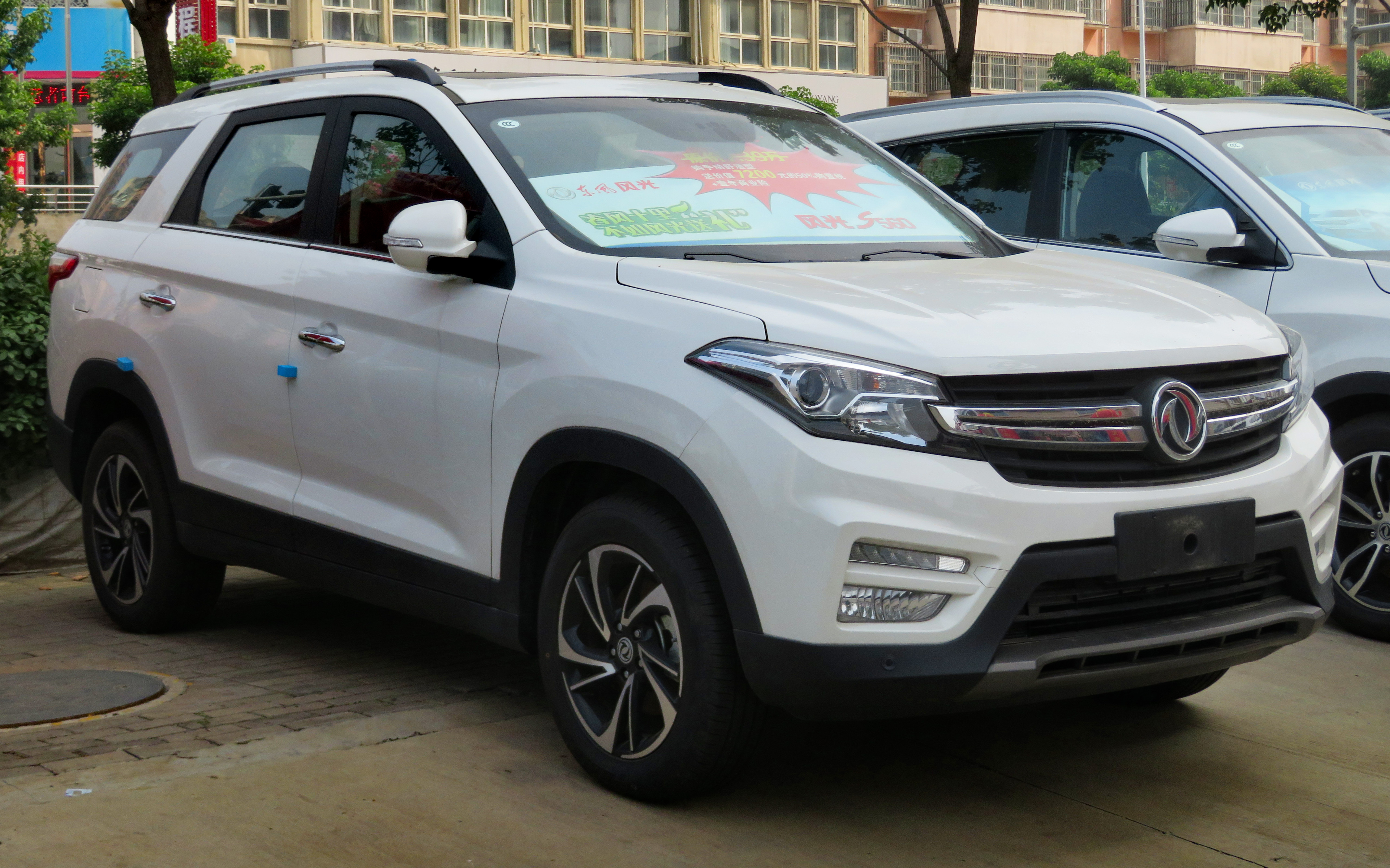 A 2018 Dongfeng-Fengguang S560 photographed in Xigong District, Luoyang, Henan province, China